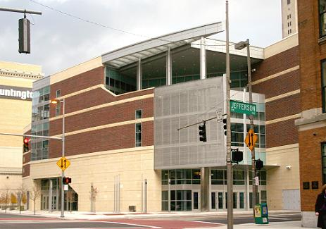 Huntington Center (Toledo)